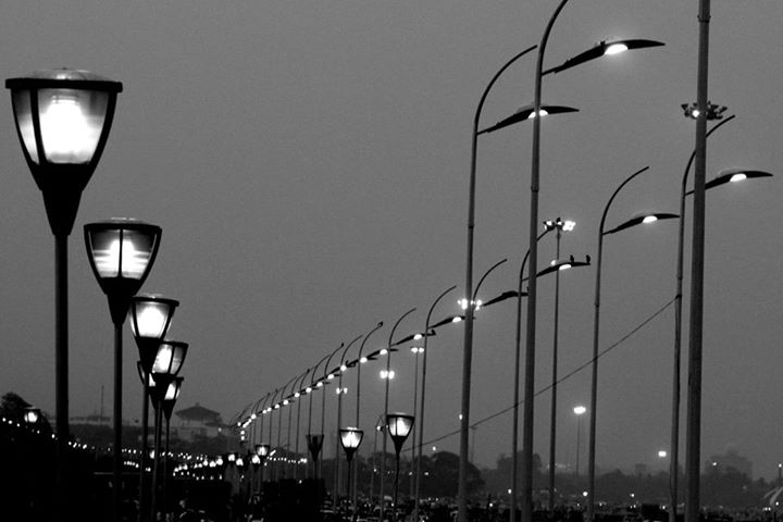 A view of Marina Beach Rd in the Metro city of Chennai under the maintenance of Chennai Metropolitan Development Authority, Chennai